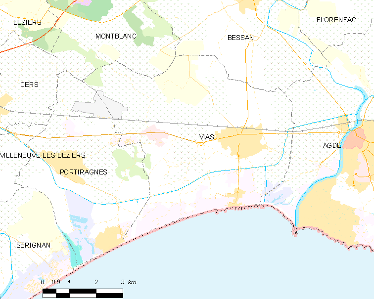 Map commune FR insee code 34332.png - Vias